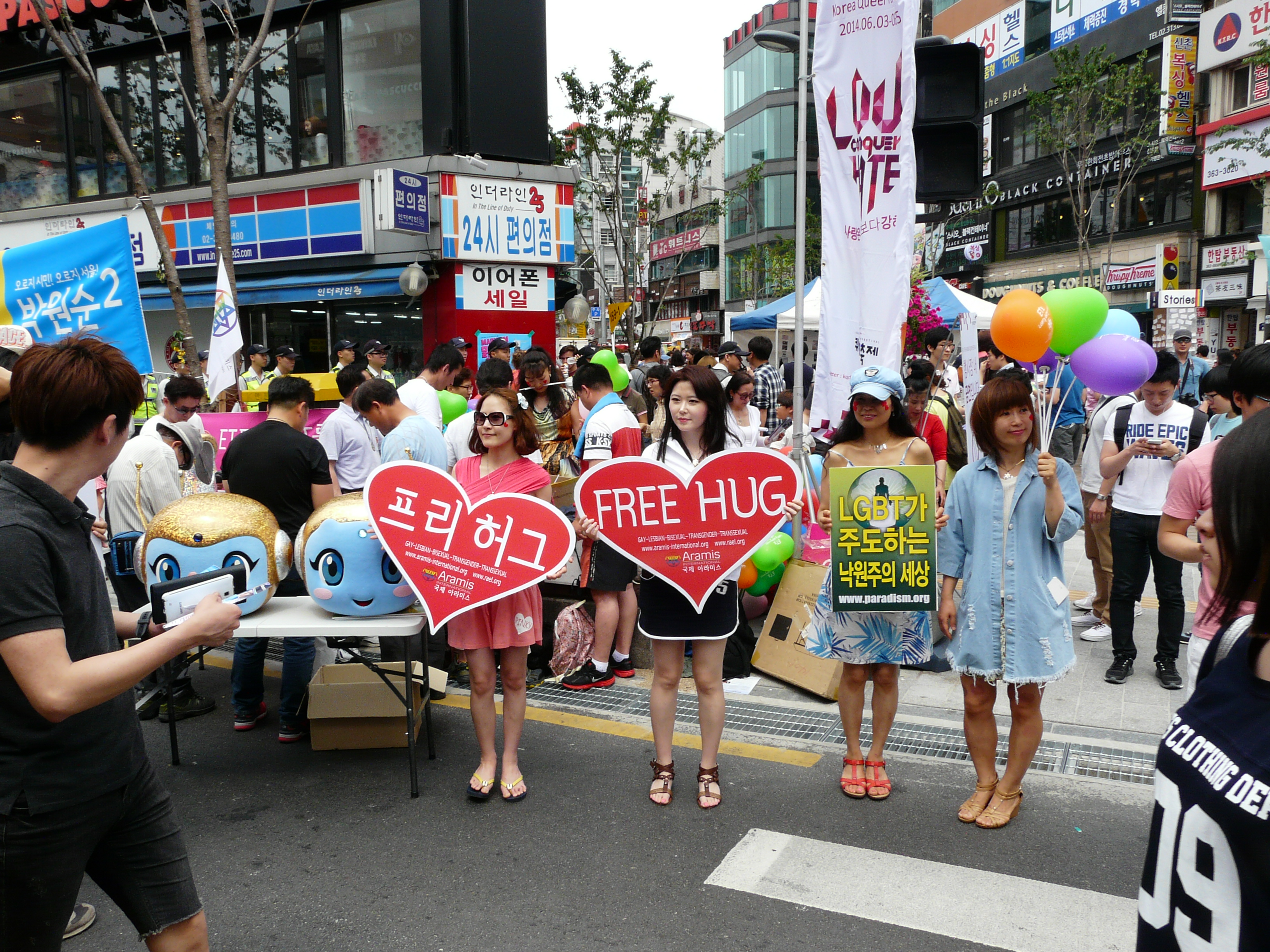 Korea Queer Culture Festival 2014, before the parade. Here: several participants at a small booth.